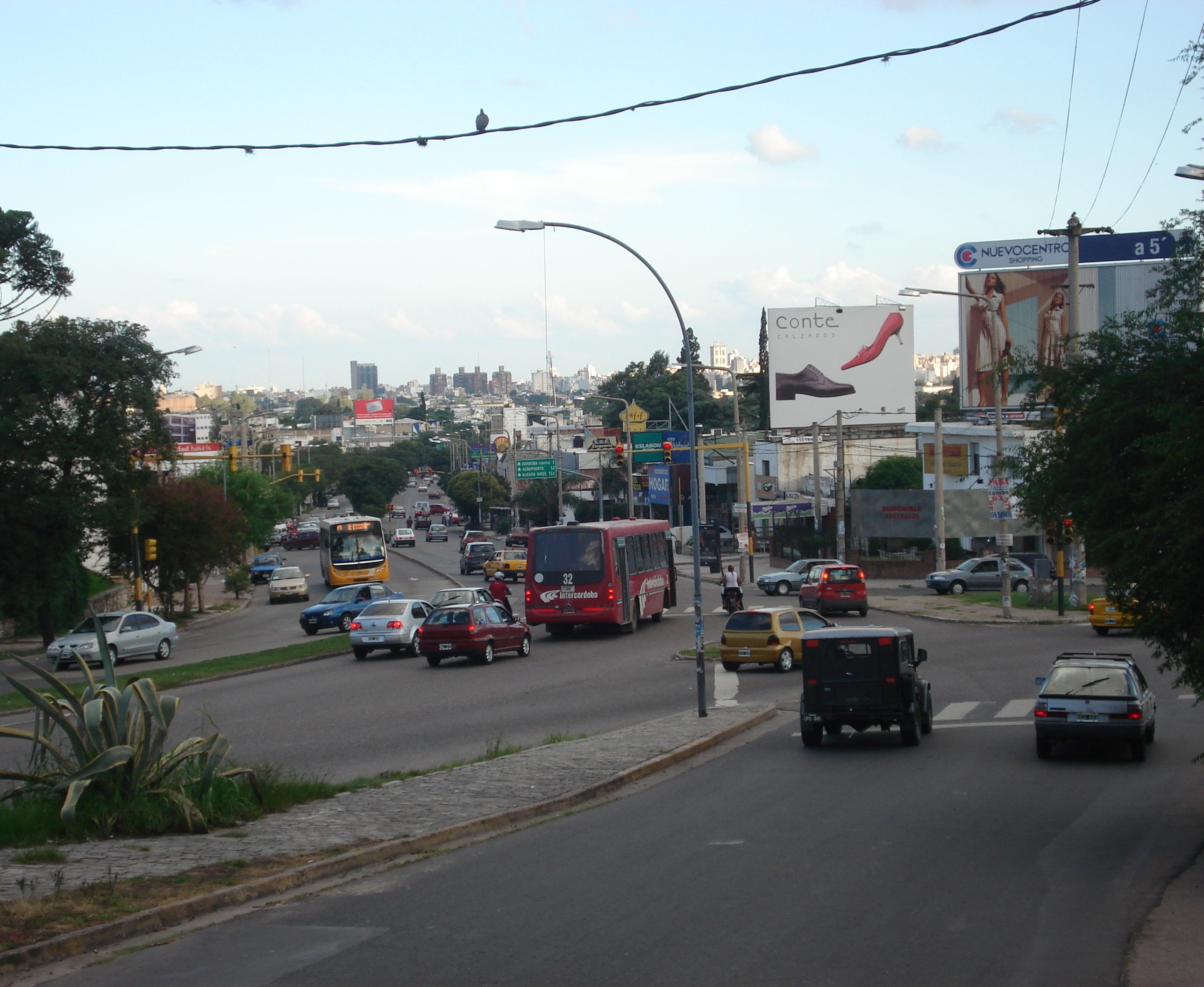 Bus with Mercedes-Benz chassis in Córdoba City, Argentina. Intercordoba 32.